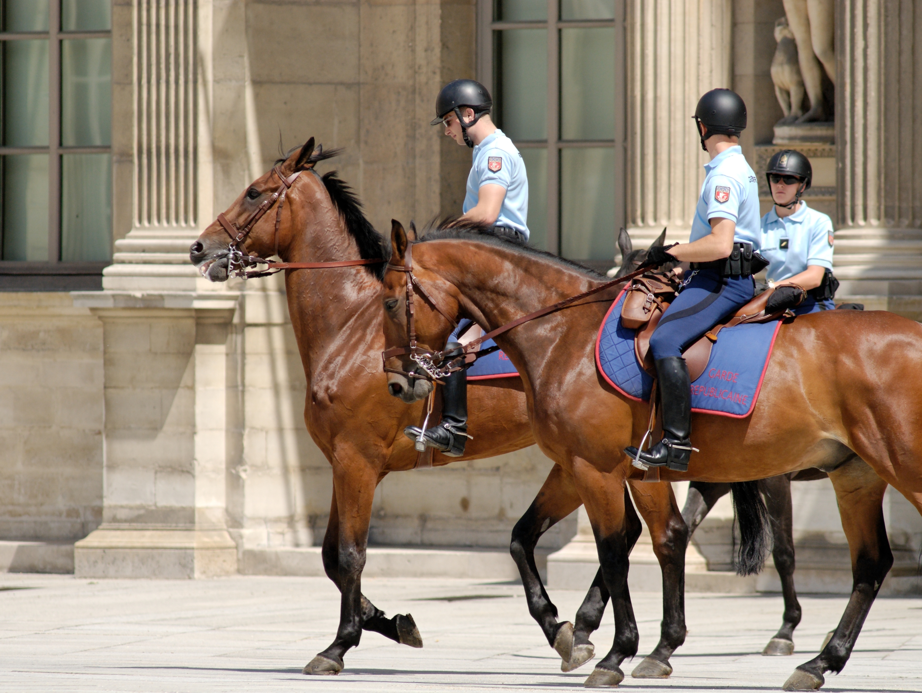 Horsemen of the French Republican Guard patrolling the cour Carrée of the Louvre palace.